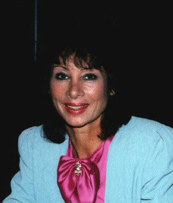 Carole Anne Ford at an autograph table at "Whovent 86" in New Brunswick, NJ. I took this picture myself. It's not the most current picture, but in lieu of a more recent freeware picture, this will do I suppose. :)